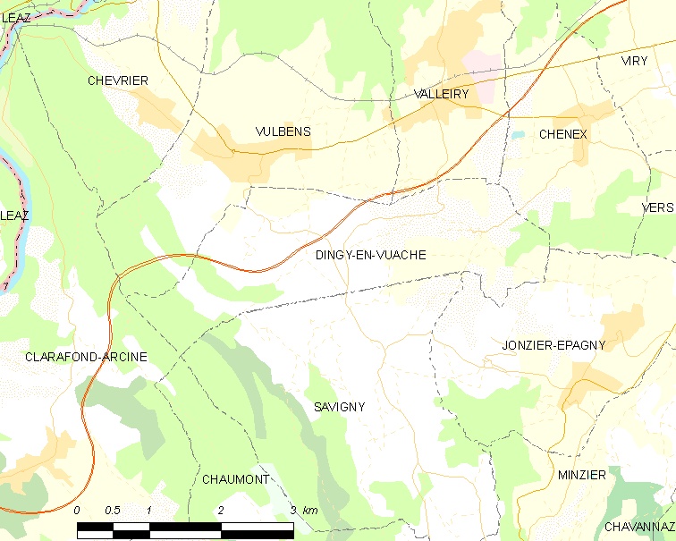 Map of French municipality Dingy-en-Vuache